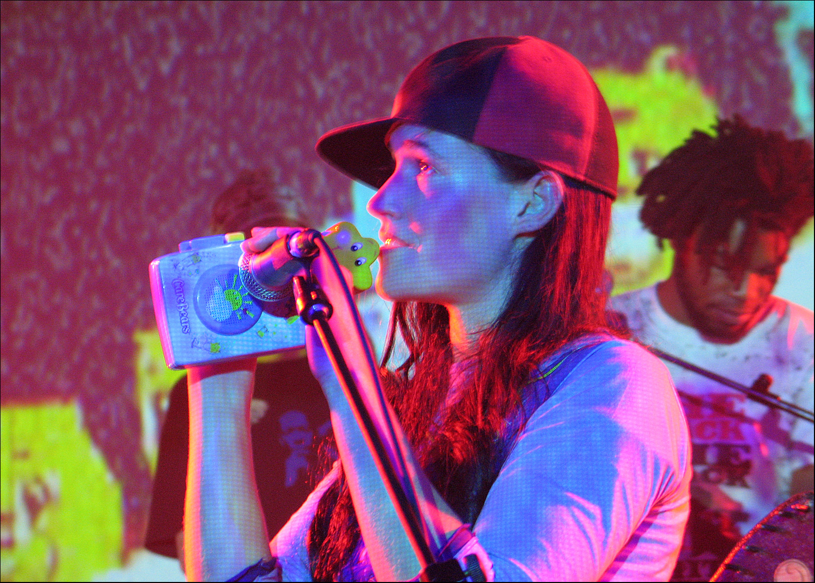 live at the scala